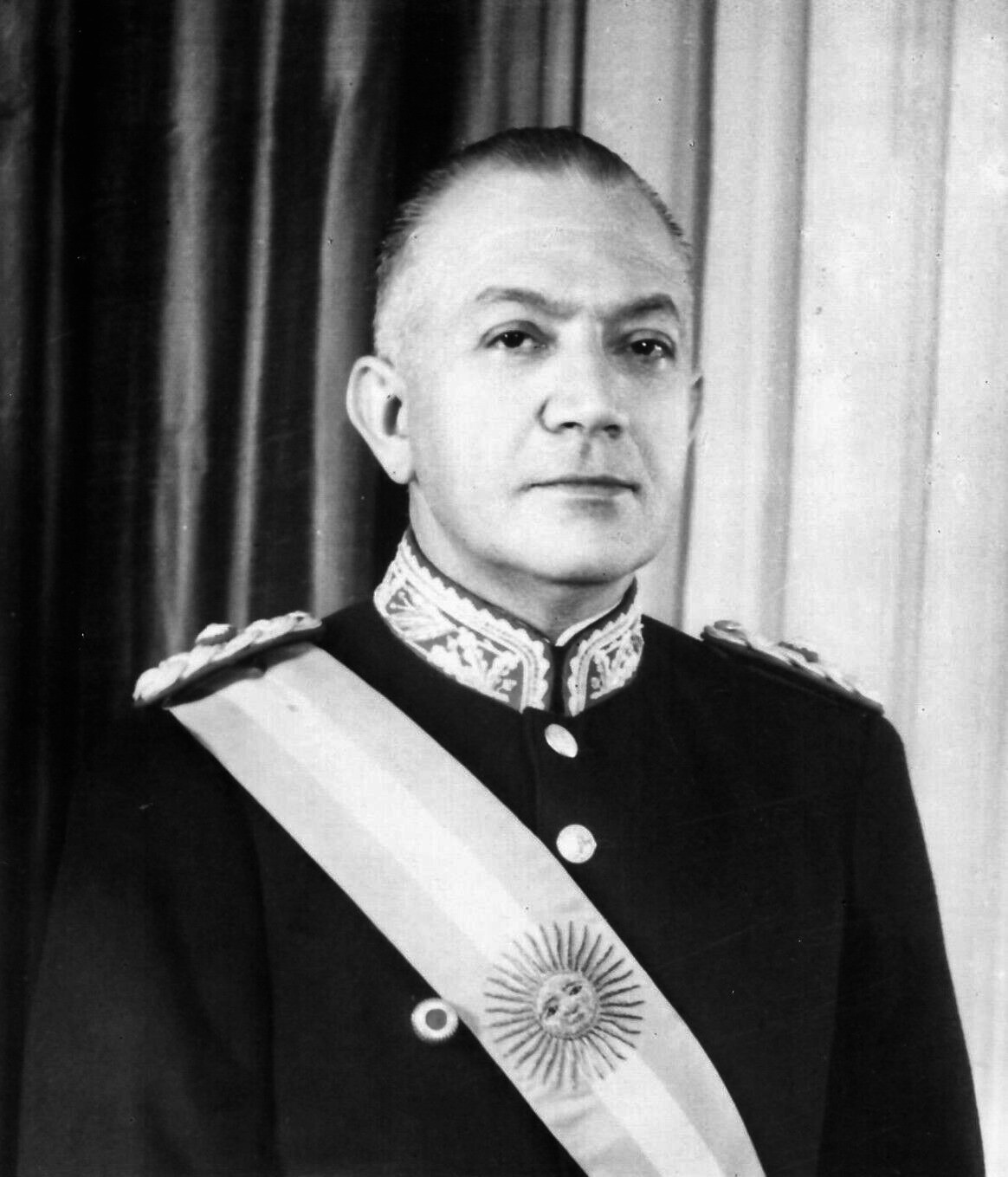 Roberto Marcelo Levingston (b. 1920), argentine militar. Head of state in 1970.